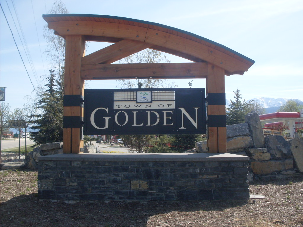 Golden's welcome sign